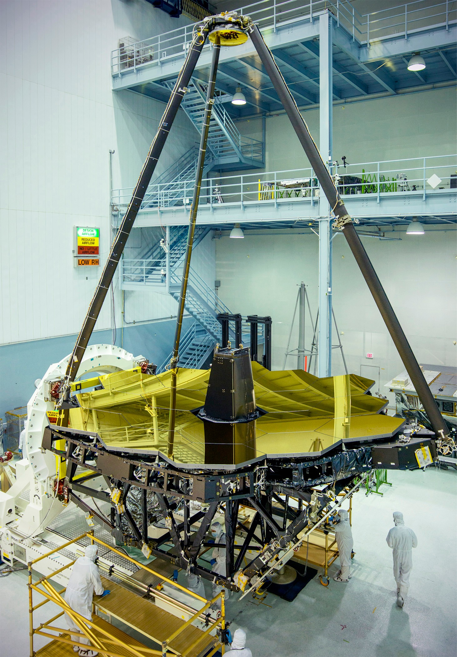 NASA engineers unveil the giant golden mirror of NASA's James Webb Space Telescope, and it's goldenly delicious! The 18 mirrors that make up the primary mirror were individually protected with a black covers when they were assembled on the telescope structure. Now, for the first time since the primary mirror was completed, the covers have been lifted. Standing tall and glimmering gold inside NASA's Goddard Space Flight Center's clean room in Greenbelt, Maryland, this mirror will be the largest yet sent into space. Currently, engineers are busy assembling and testing the other pieces of the telescope. Read more: Credit: NASA/Goddard/Chris Gunn NASA image use policy. NASA Goddard Space Flight Center enables NASA’s mission through four scientific endeavors: Earth Science, Heliophysics, Solar System Exploration, and Astrophysics. Goddard plays a leading role in NASA’s accomplishments by contributing compelling scientific knowledge to advance the Agency’s mission. Follow us on Twitter Like us on Facebook Find us on Instagram